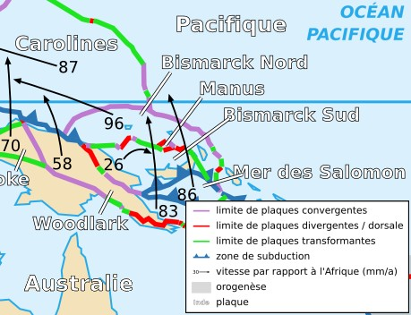 Map of the North Bismarck Plate